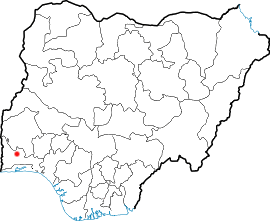 Abeokuta, Nigeria Location Map, Adapted from Locator Map Aba-Nigeria.png which was made by User:Civvi at Wikimedia Commons